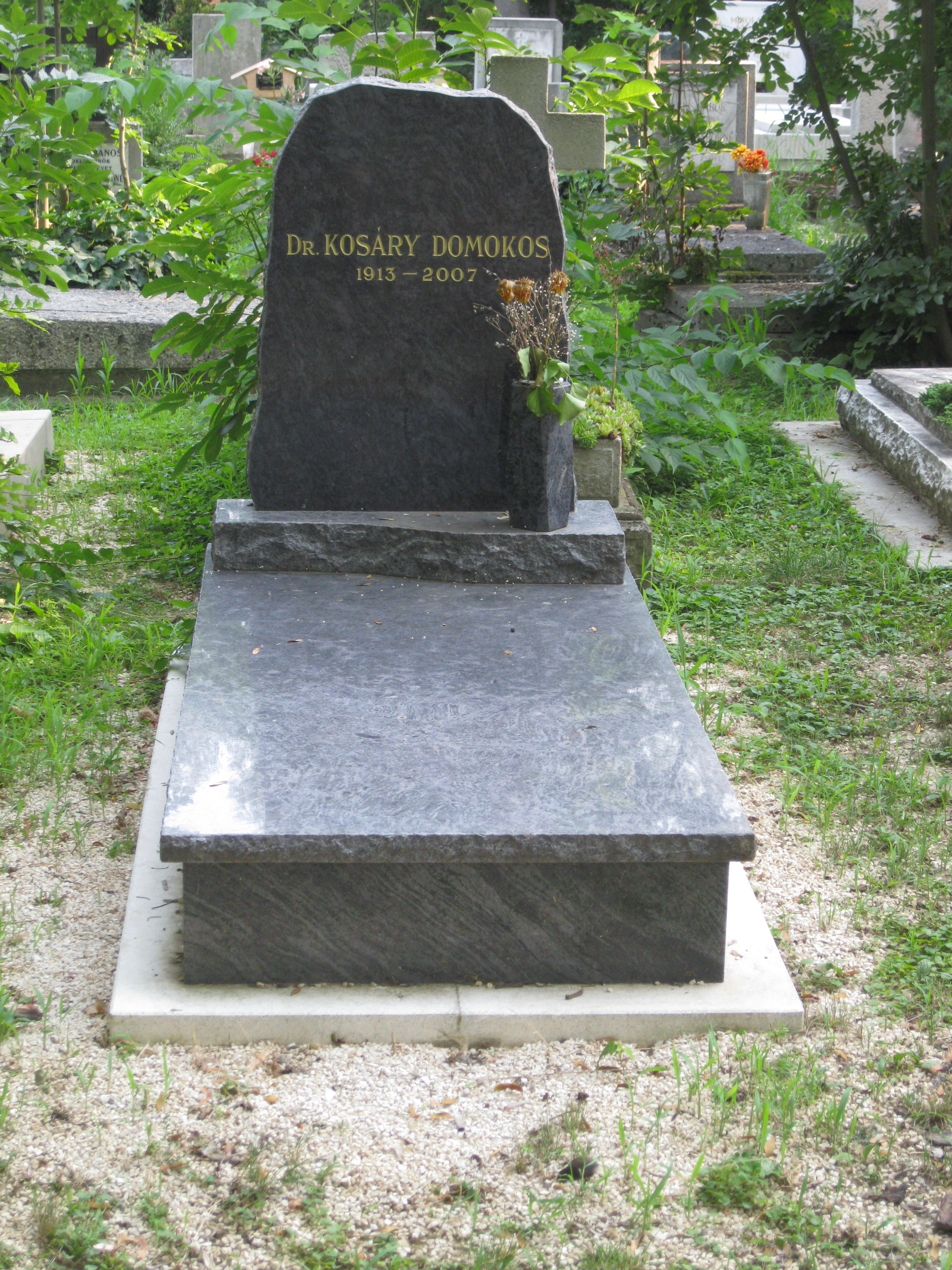 Tomb of Domokos Kosáry in Farkasréti Cemetery, Budapest District XII